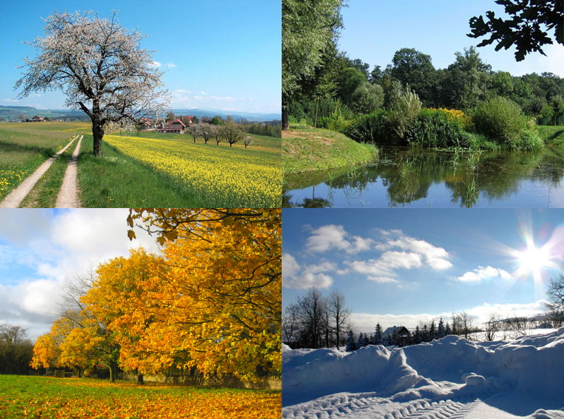 Four seasons collage from four Wikimedia Commons images: Spring, Summer, Autumn and Winter